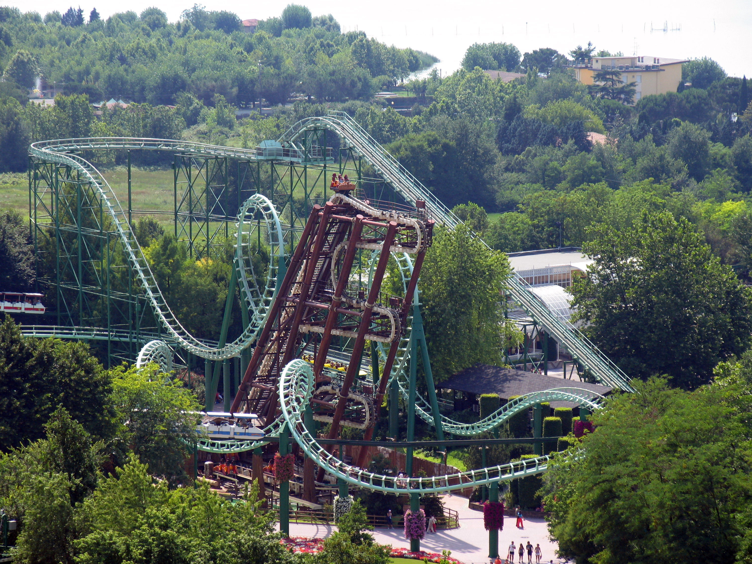 Roller coasters Magic Mountain and Sequoia Adventure at Gardaland, Italy